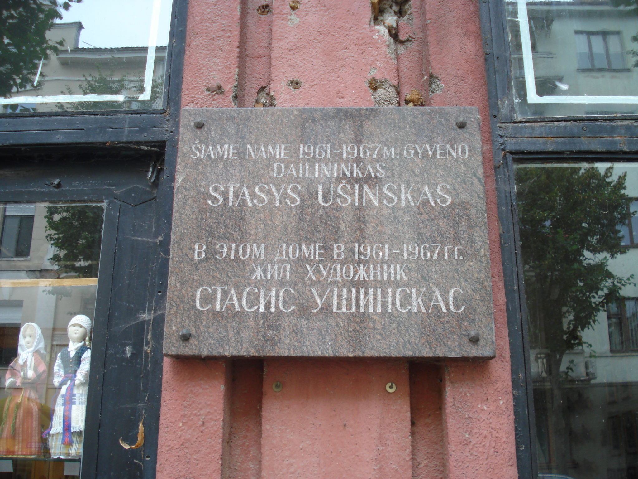 Stasys Ušinskas (1905–1974), Lithuanian painter, commemorative plaque in Kaunas, Daukanto Street.